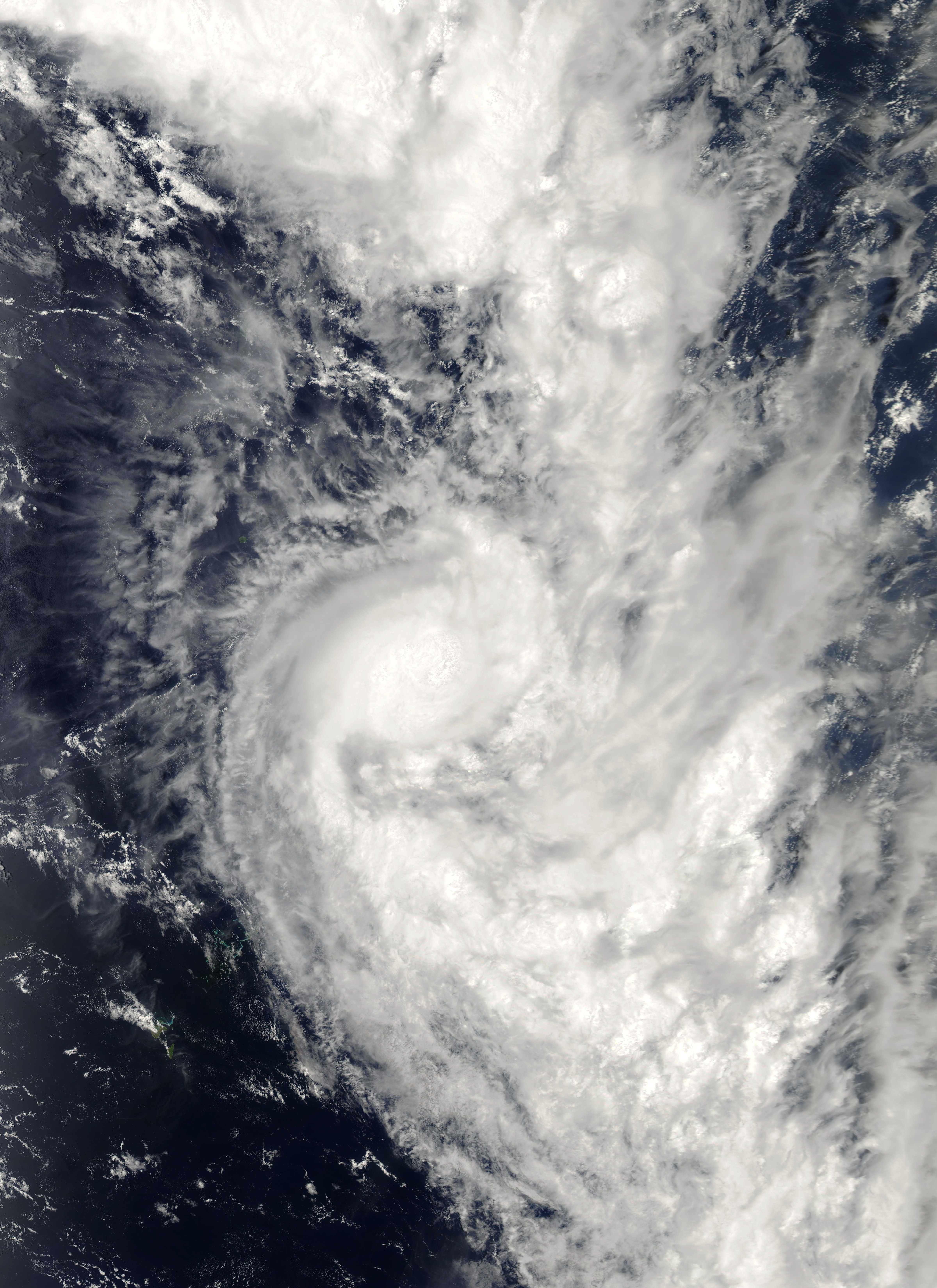 Tropical Cyclone Urmil on January 14, 2006